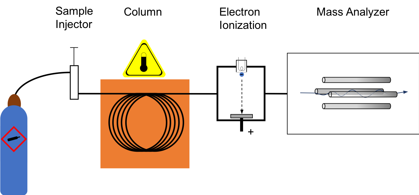 Schematic of gas chromatography coupled with mass spectrometry with an electron ionization source.